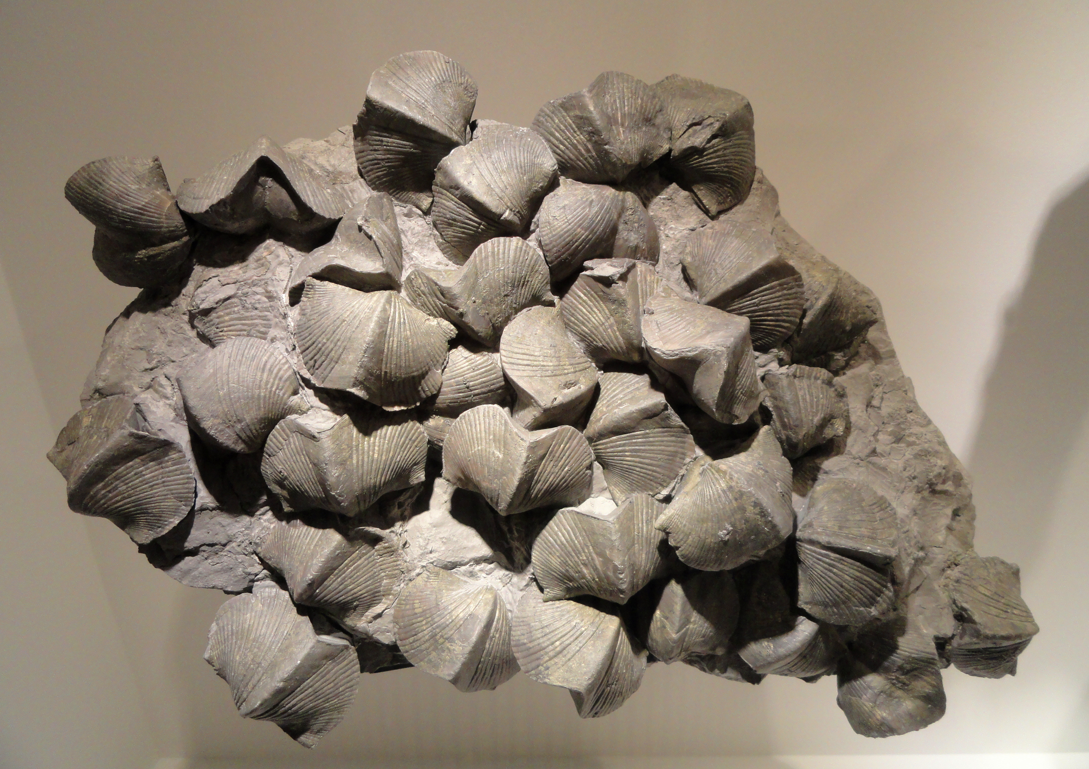 Exhibit in the Houston Museum of Natural Science, Houston, Texas, USA.